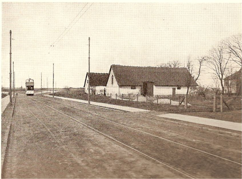 Tram on Mariendalsvej with the property Lille Godthåb to the right in Frederiksberg, Copenhagen, Denmark